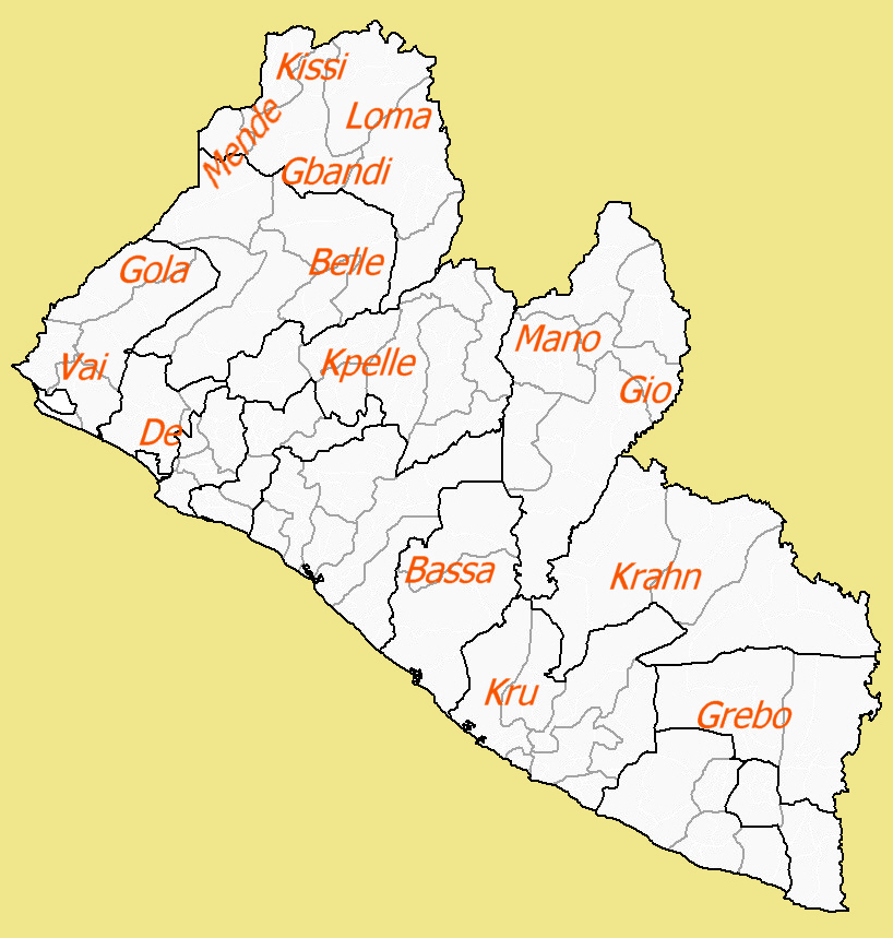 Map of the Tribes in Liberia.